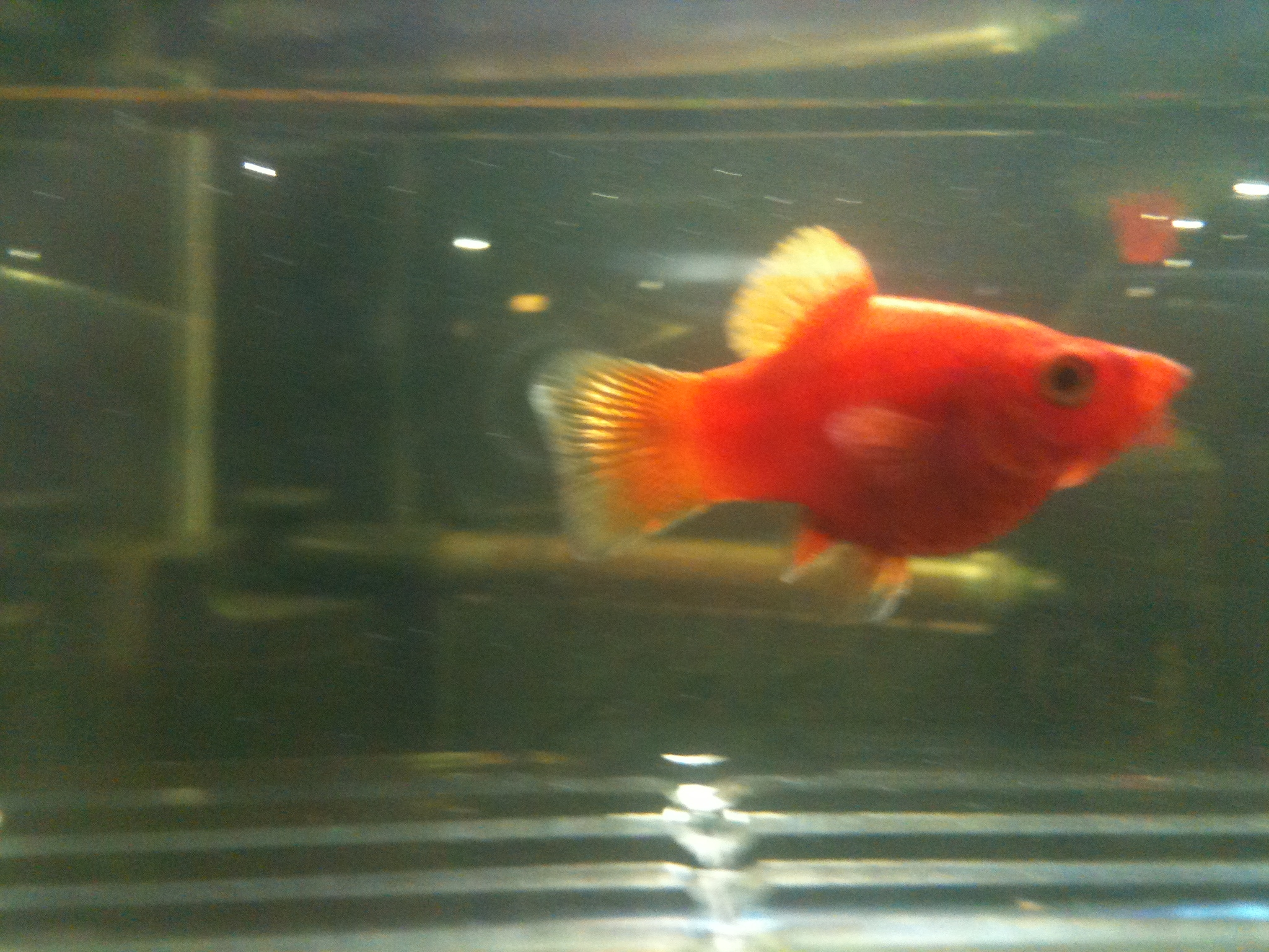 Female Platy Fish